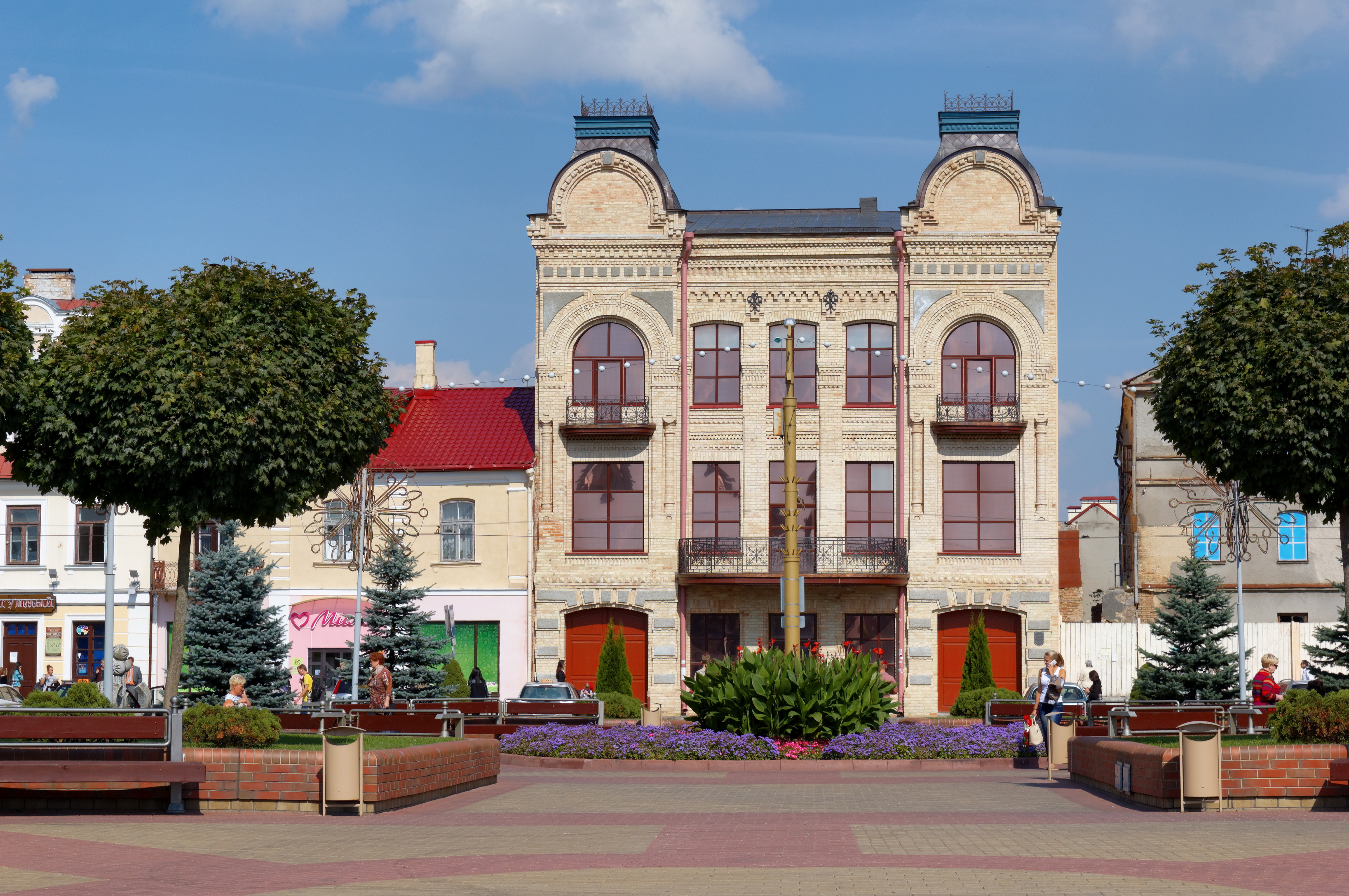 Muraŭjoŭ House in Hrodna